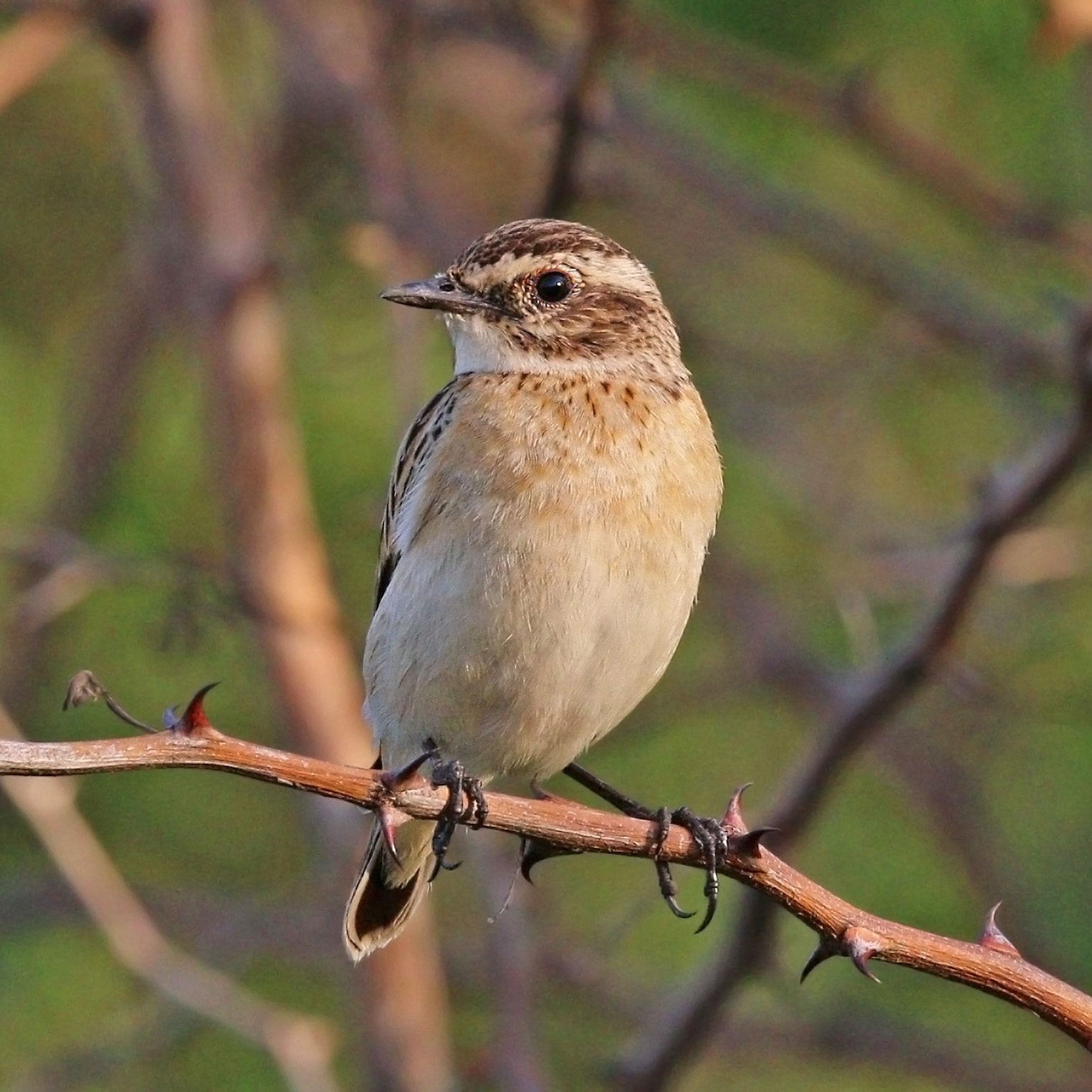 Whinchat (Saxicola rubetra), Semliki Wildlife Reserve, Uganda